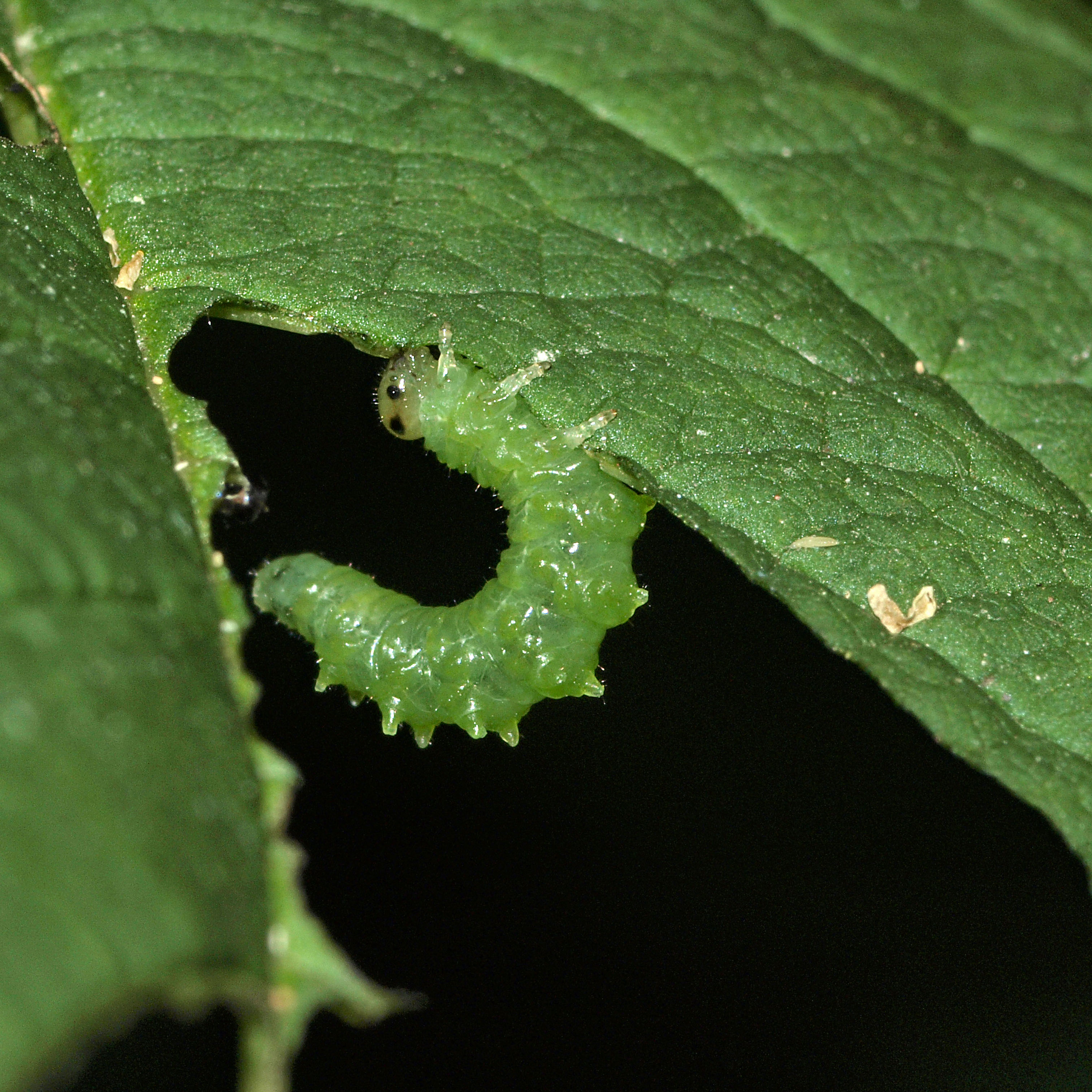 The larva is now 16 mm long. In the final instar the small spots on the body have disappeared and the black band on the head is reduced to a round spot on either side. The larva sits in a defensive posture typical of Nematinae larvae.